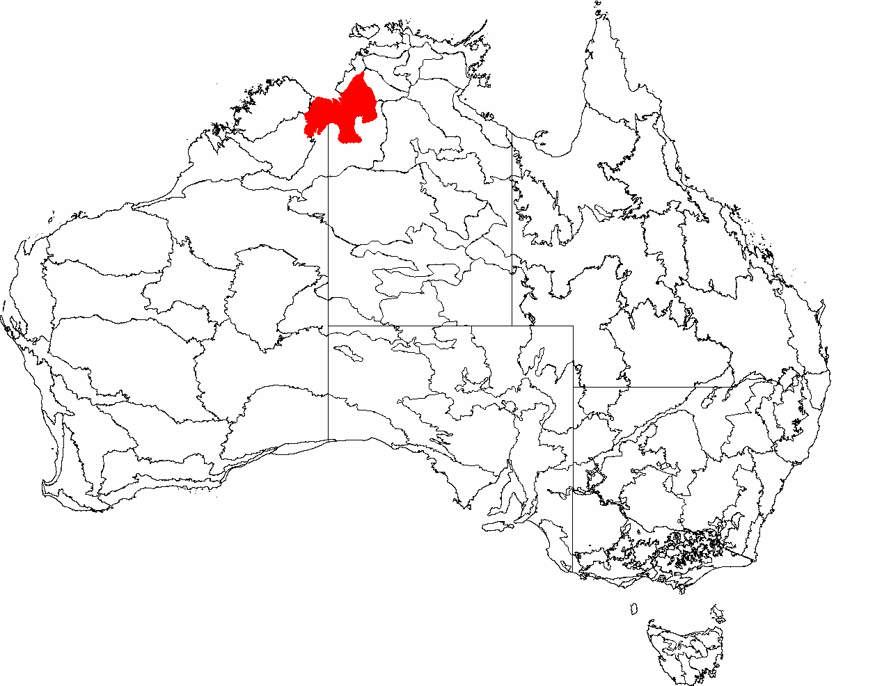 This is a map of the Interim Biogeographic Regionalisation of Australia (IBRA), with state boundaries overlaid. The Victoria Bonaparte region is shown in red.